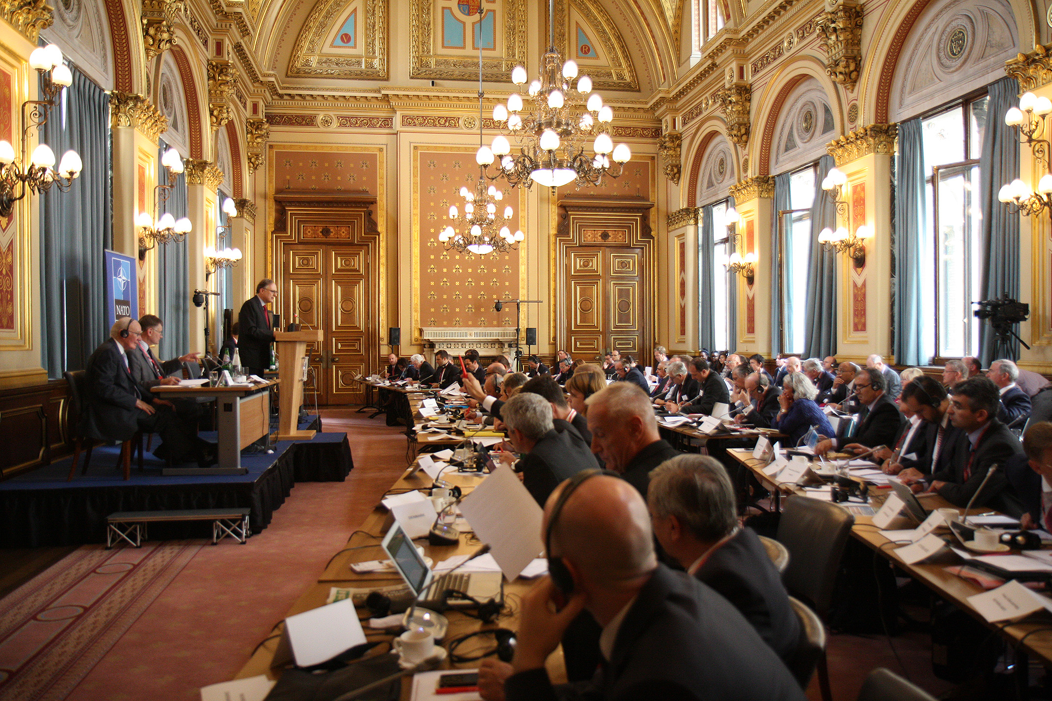 NATO Parliamentary Assembly Pre-Summit Conference in London, 2 September 2014.